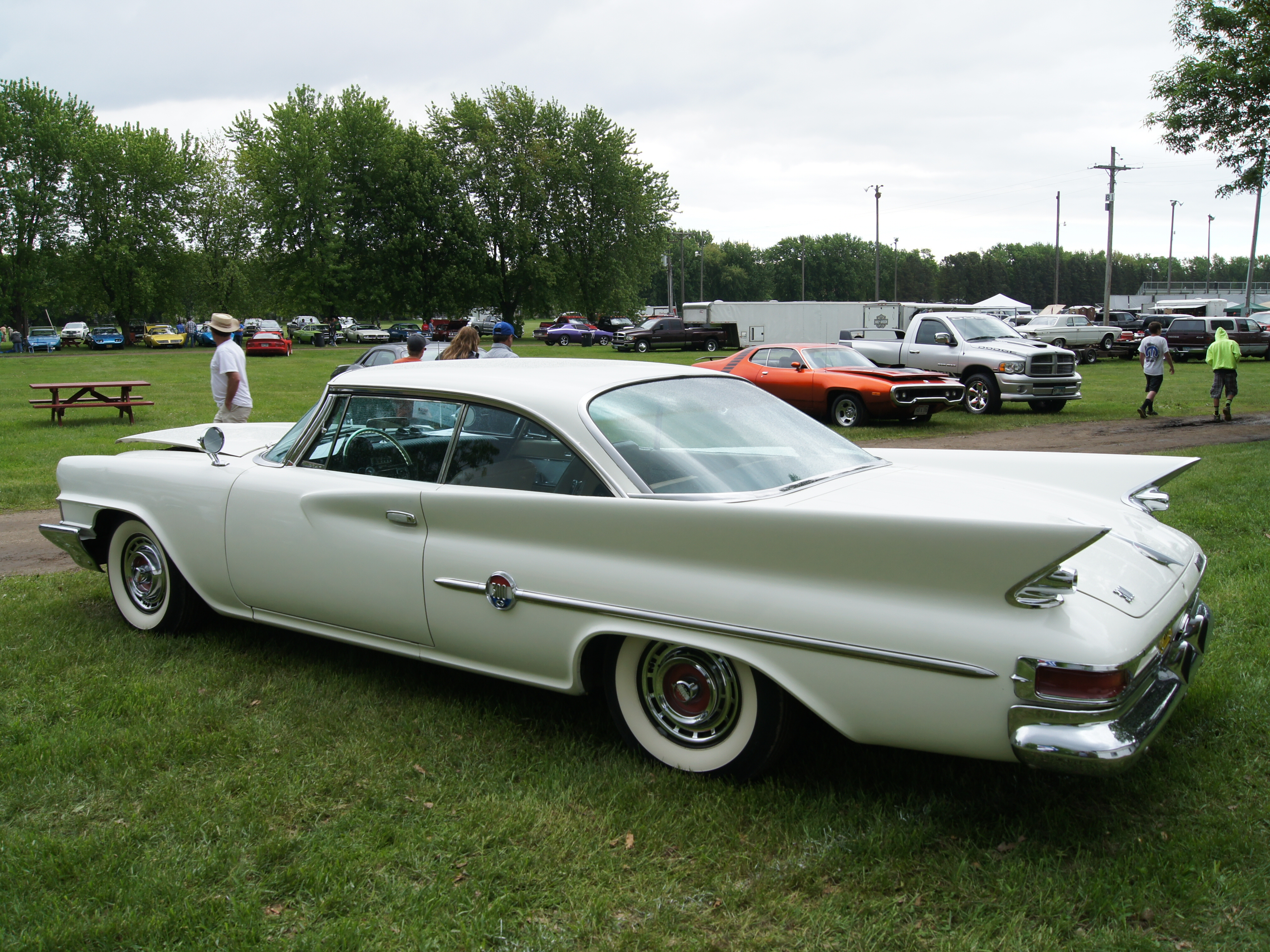 29th Annual Midwest Mopars in the Park Car Show & Swap Meet June 1-2, 2013 Dakota County Fairgrounds Farmington, MN Thousands of car pictures at the link below